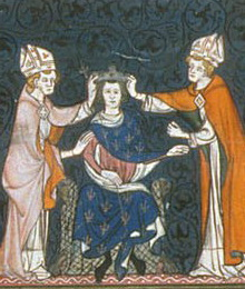 Coronation of Louis II le Begue of France. (British Library, Royal 16 G VI f. 237v)